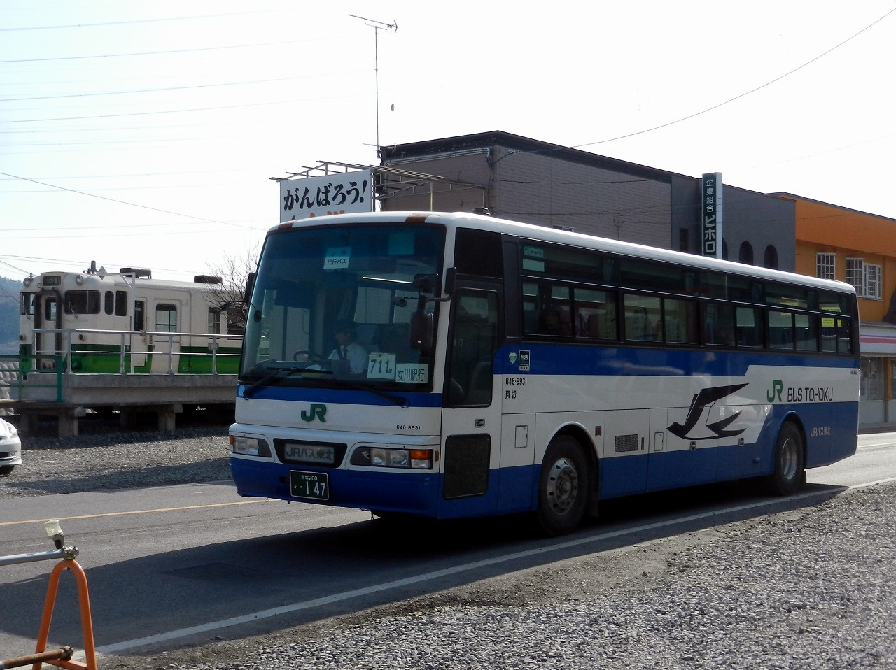 JR East Ishinomaki line Urashuku station train and bustitution (for Onagawa station)